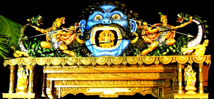 Maa Dakhina kali temple, Old Town, Nayagarh, Odisha